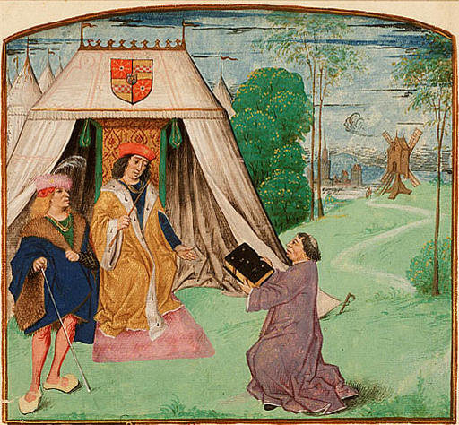 Jean Molinet, Le roman de la rose moralisé et translaté de rime en prose Place of origin, date: Valenciennes, Augustin Molinet (?scribe), Master of Antoine Rolin (illuminator); 1500 Material: Vellum, ff. 240, 365x270 (240x192) mm, 2 columns, 34-45 lines, littera cursiva. French. Binding: 18th-century brown leather with coat of arms of Stadtholder William V Decoration: 1 miniature (175x190 mm); 1 decorated initial (f. 1r) Provenance: Made for Philip of Cleves, Lord of Ravenstein (d. 1528); purchased in 1531 from his estate by Henri III, Count of Nassau; by inheritance to the Princes of Orange-Nassau, the later Stadtholders, at The Hague; taken to Paris in 1795 by the French occupying forces and restituted in 1816 to the KB